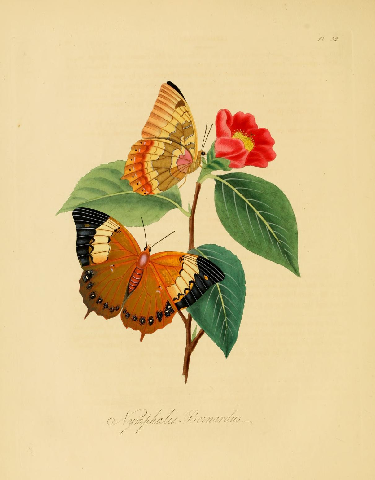 Donovan Nymphalis Bernardus